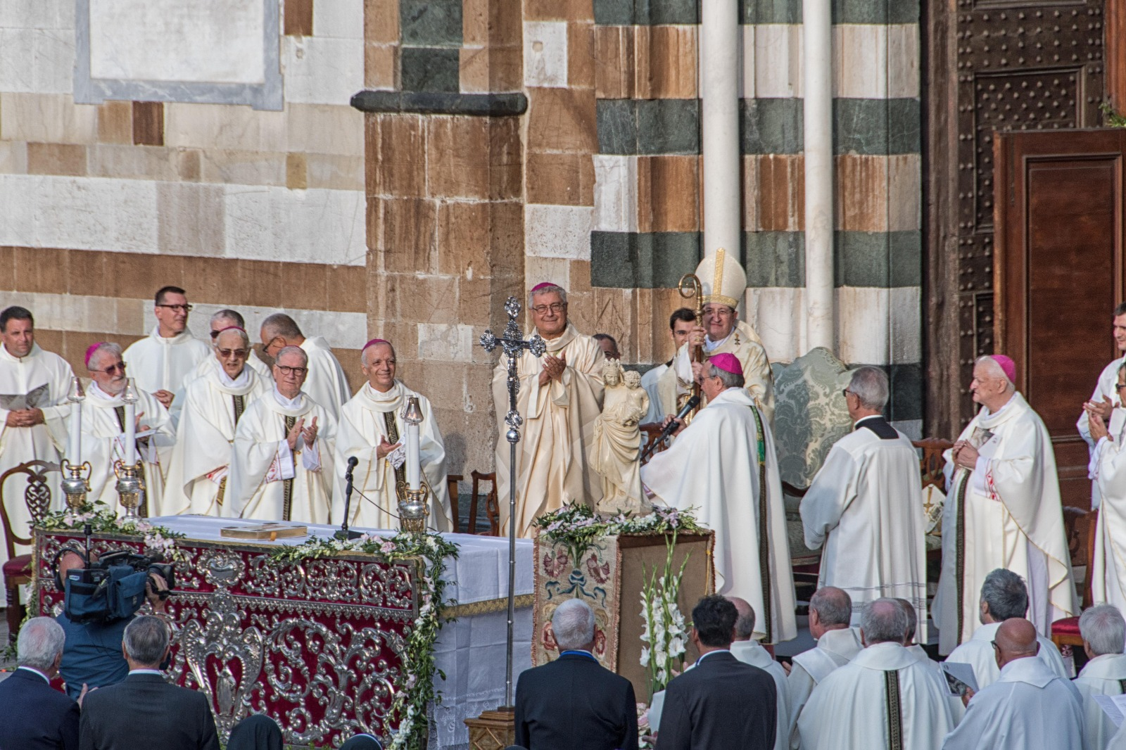 Prato, Italy, Bishop Giovanni Nerbini, Tuscany